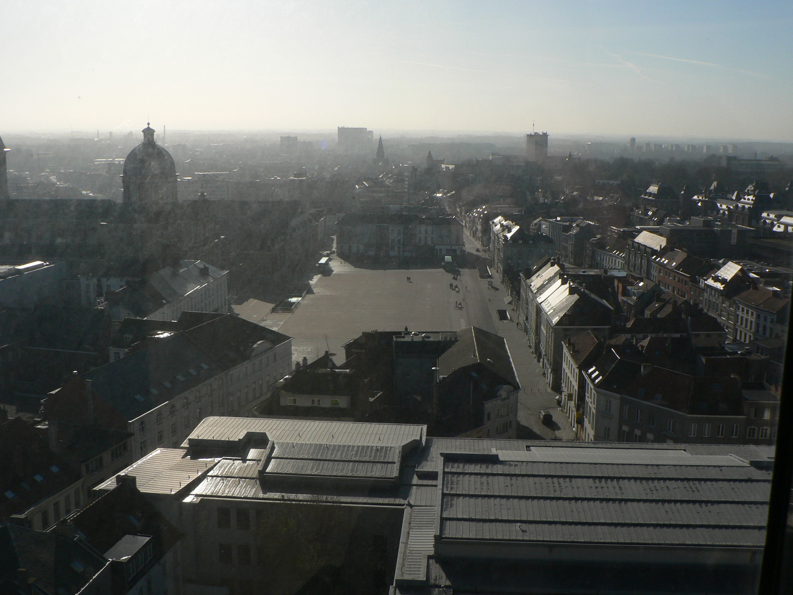 Saint Pieter square seen from book tower